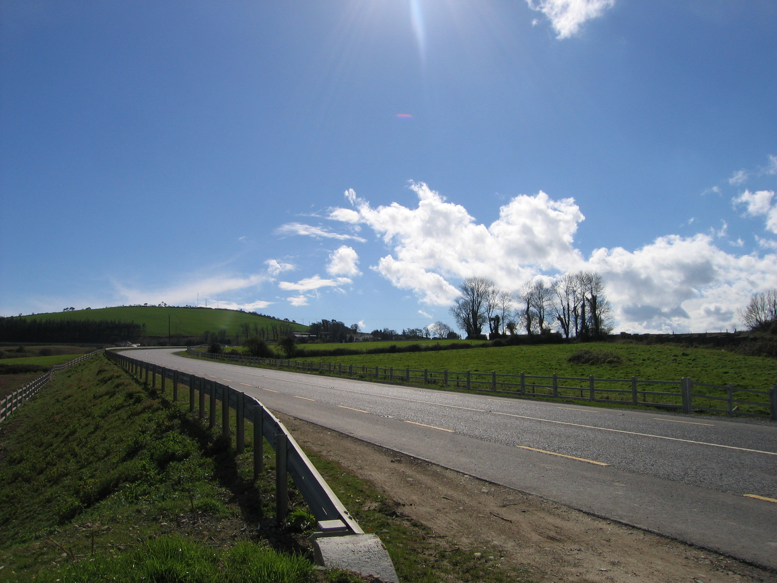 Looking South, near to Rath Naoi, Hawkstown, Ballynabarny and Newrath Bridge, Wicklow, Ireland. From the R772 east of Wicklow/Rathnew. Junction 17 of the M11 is just beyond those trees.